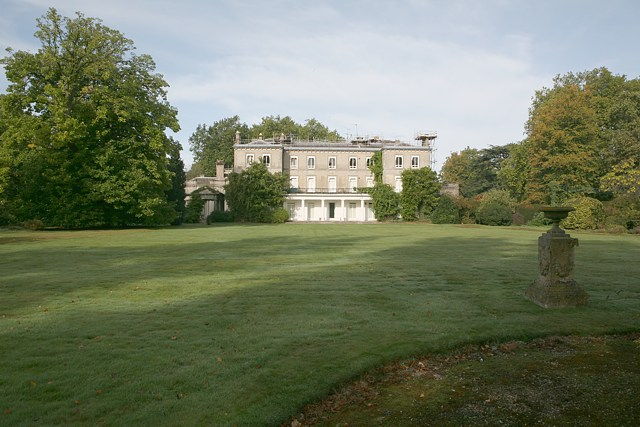 Brambridge House. Looking W. This house has been converted into flats. At the time of photo the roof is being repaired. Brambridge Garden Centre is located across the road in what used to be the walled kitchen garden of this house. There is an avenue of trees behind the photographer, but the drive between them no longer exists.